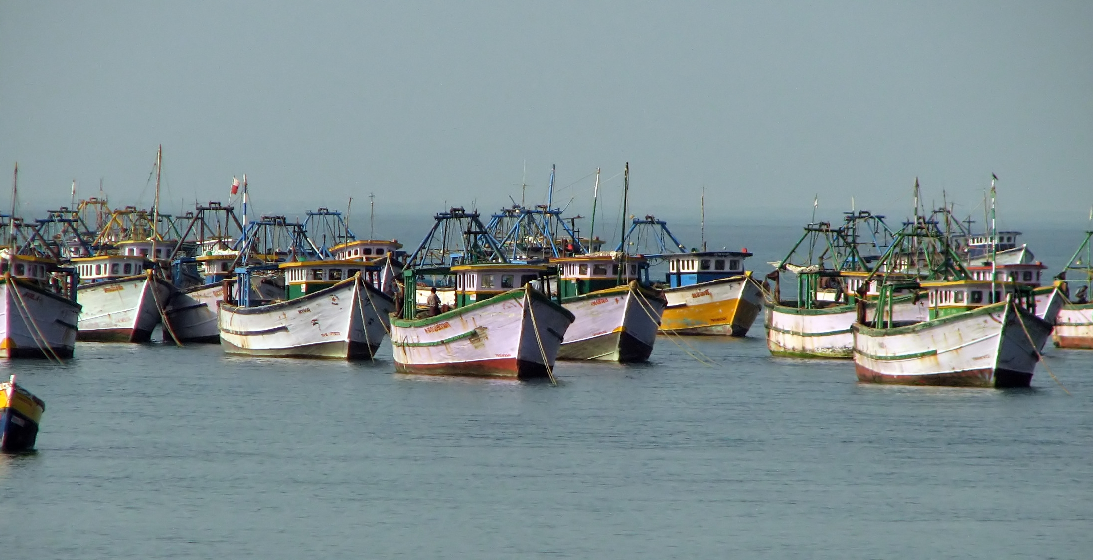 Fishing Boats at Rameshwaram.